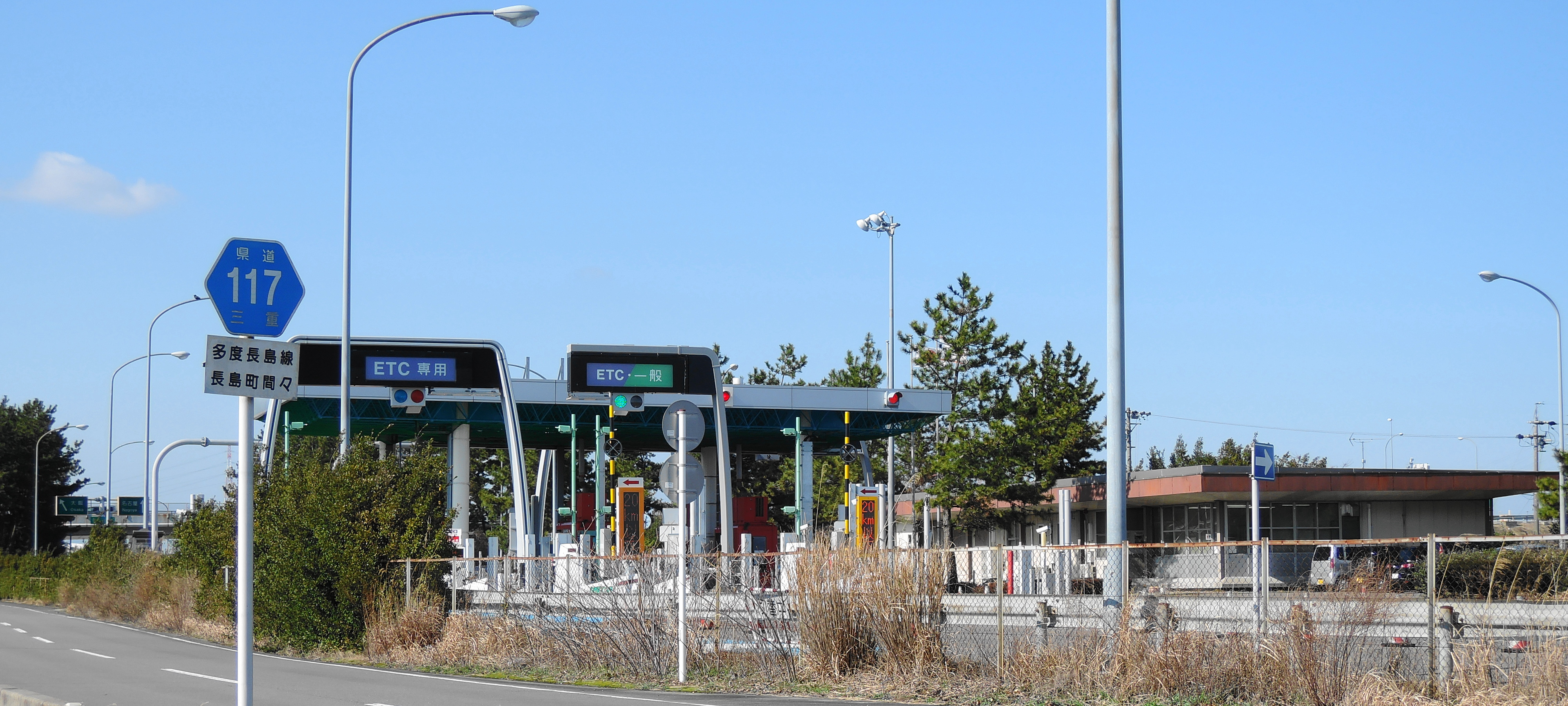 Nagashima Inter Change,Aichi prefecture,Japan